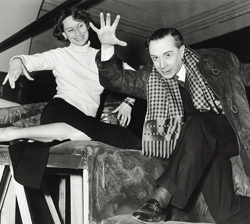 The Russian choreographer Alexander Sakharoff rehearsing 'Hamlet' with the Italian actress Elena Zareschi. Italy, 1950s